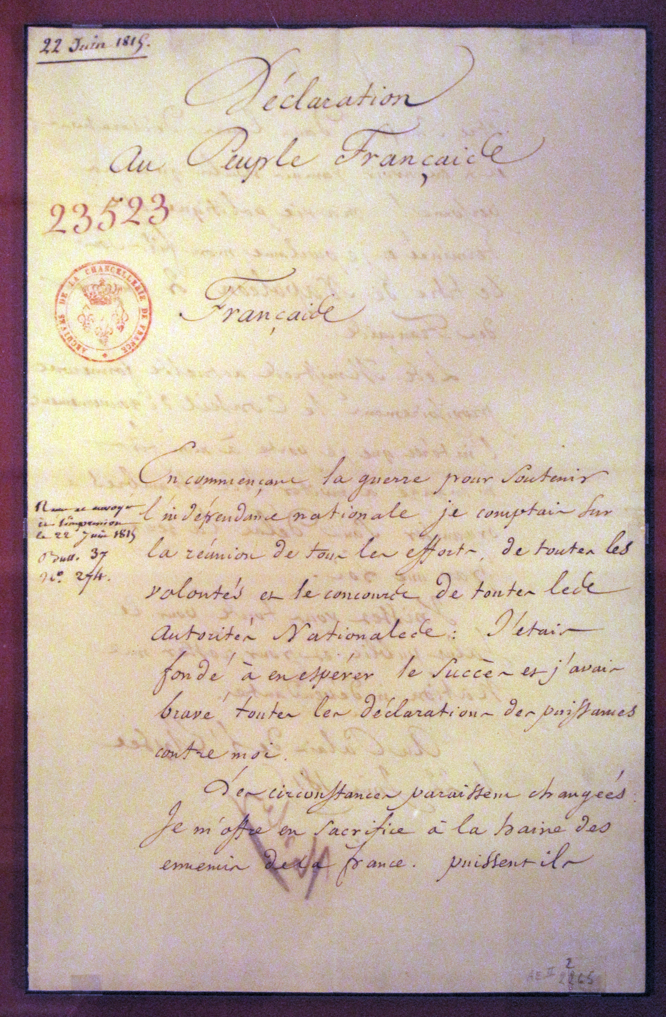 Second act of abdication of Napoléon I, Palais de l'Élysée 22 June 1815. Manuscript, ink on paper. Paris, National archives.